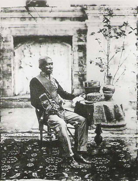 King Mongkut (Rama IV) of Siam (now Thailand). In this image, he wore a military uniform and sat on simple chair. The photograph was taken at Phra Apinaoniwet in the current Grand Palace.